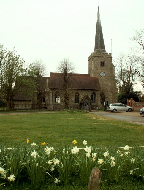 St. John the Baptist: the parish church of Danbury This 14th century church stands on a high position and the tower is a landmark for miles around.